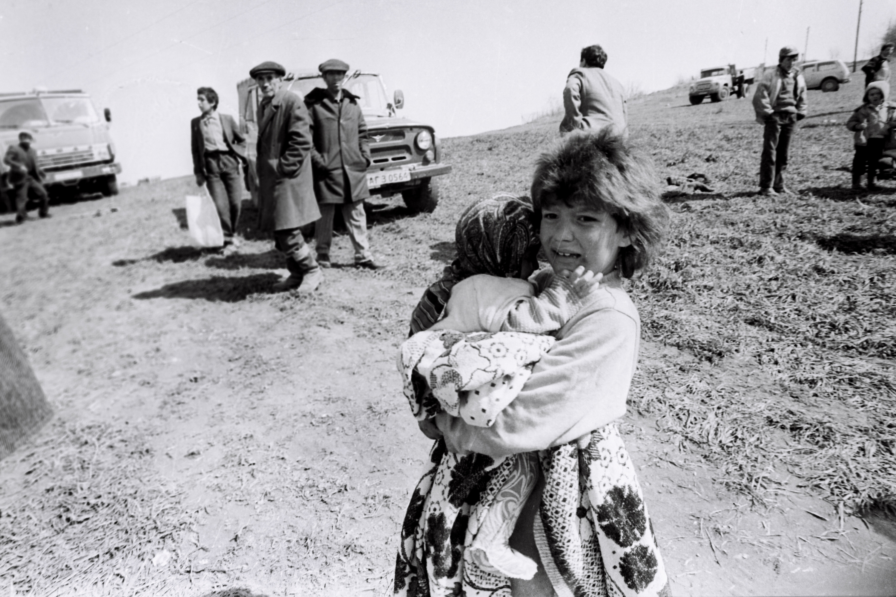 Azerbaijani refugees from Kalbajar Rayon.